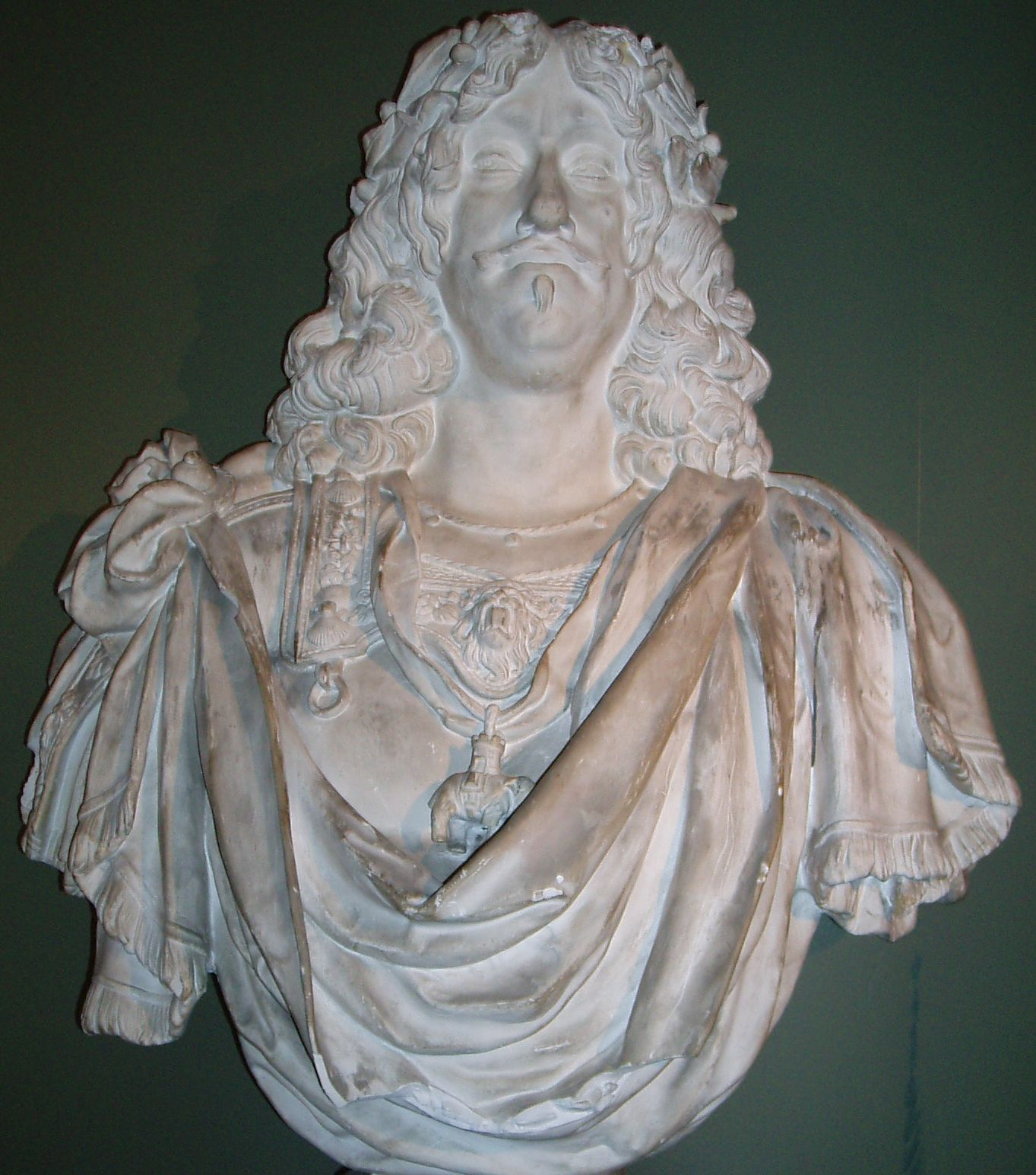 Bust of King Frederick III of Denmark.